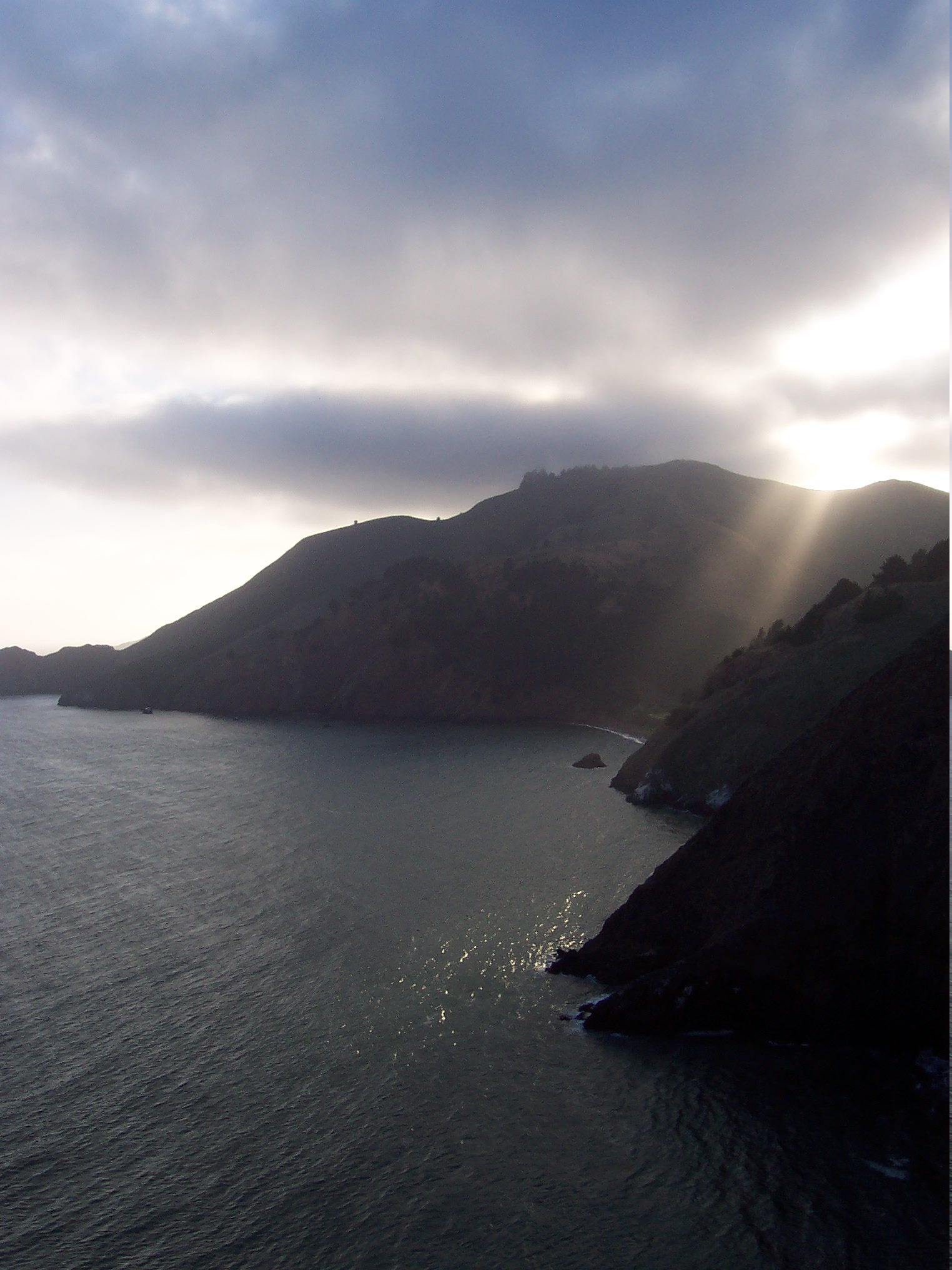 The Marin Headlands as seen from the sidewalk near the northern tower of the Golden Gate Bridge.